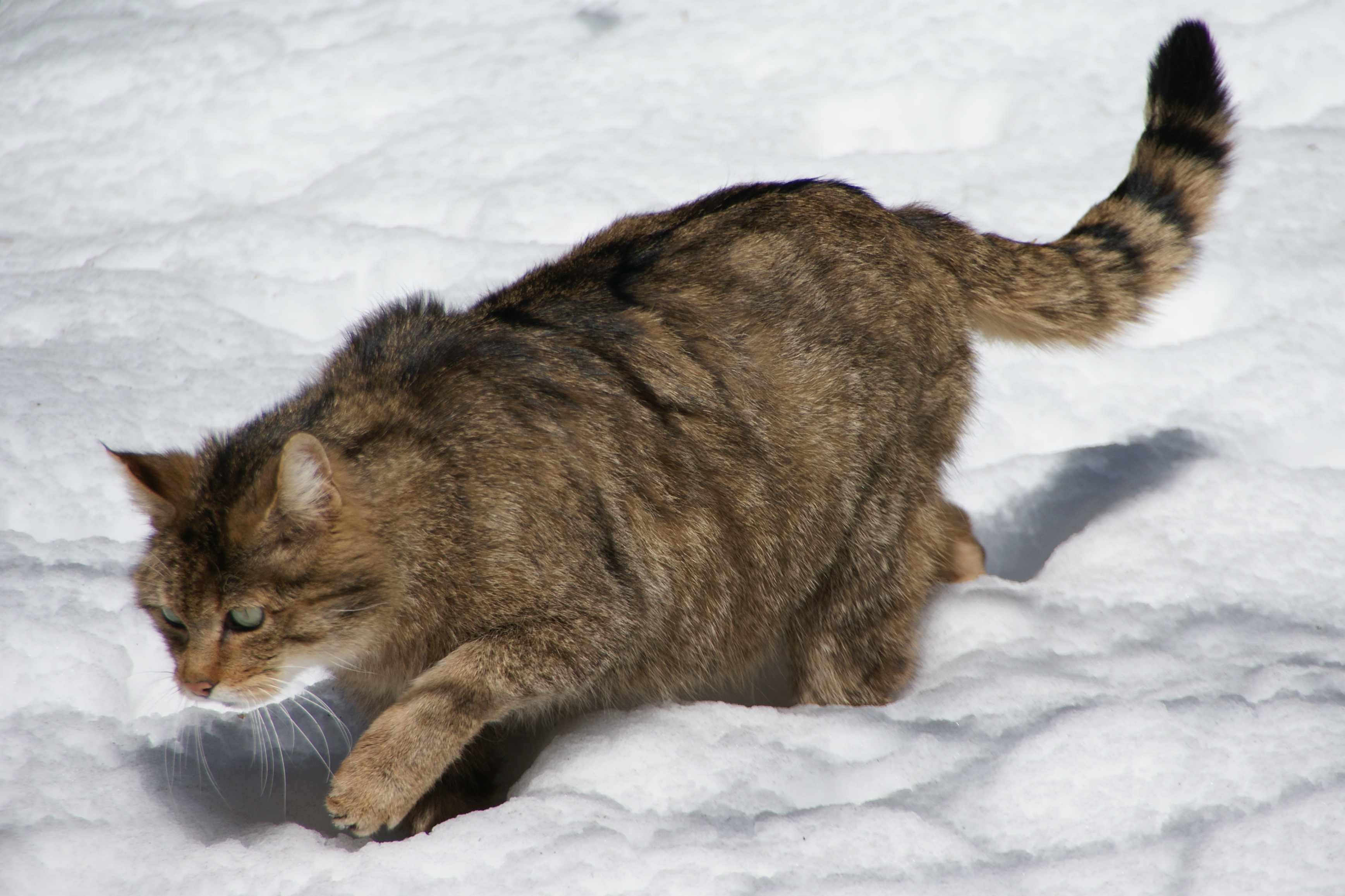 European Wildcat in an open-air enclosure at the Bavarian Forest National Park